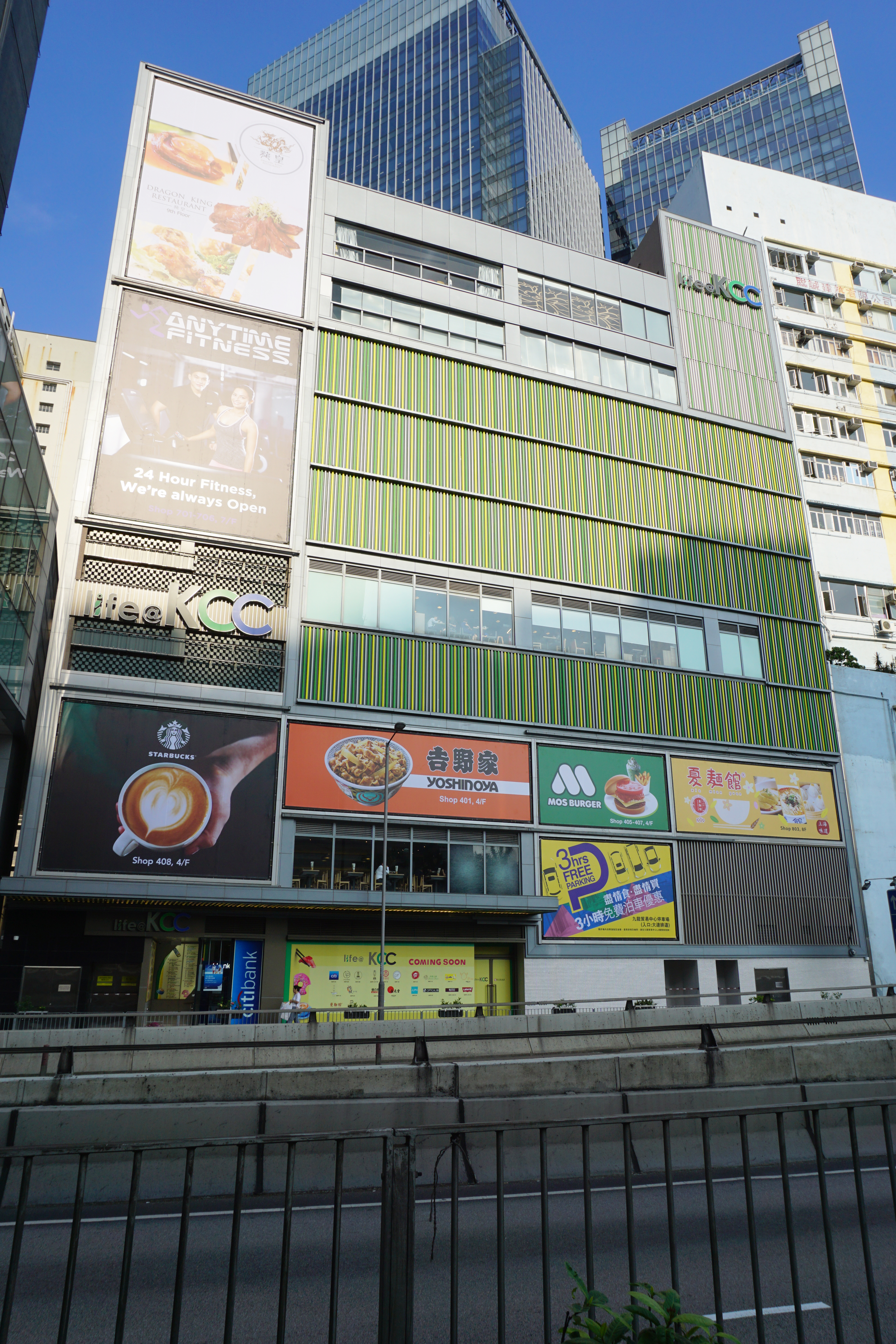 Life@KCC in Kwai Fong, Hong Kong.